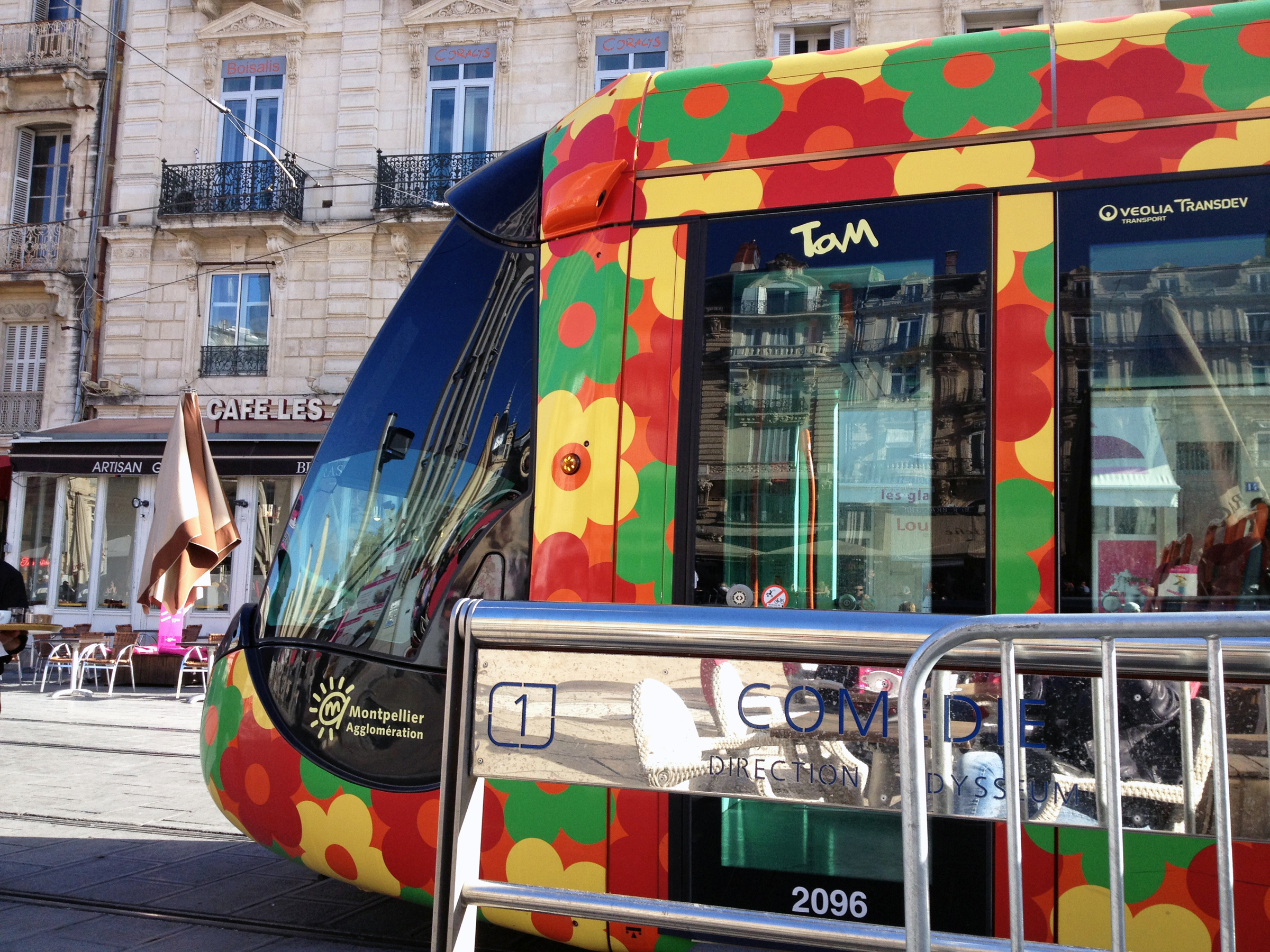 Montepellier tram operating in Line 2. France